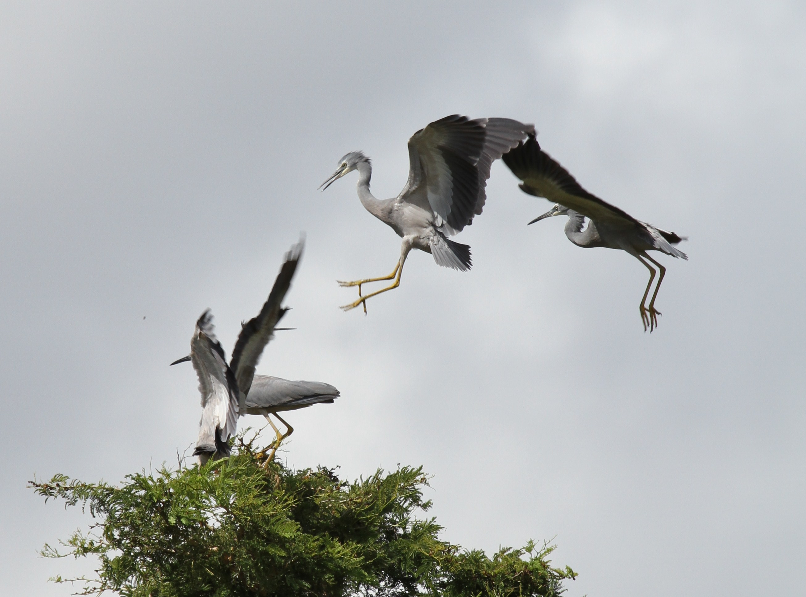 A group of White-faced Herons squabble as they come in to a tree roost, after feeding in a roadside ricefield